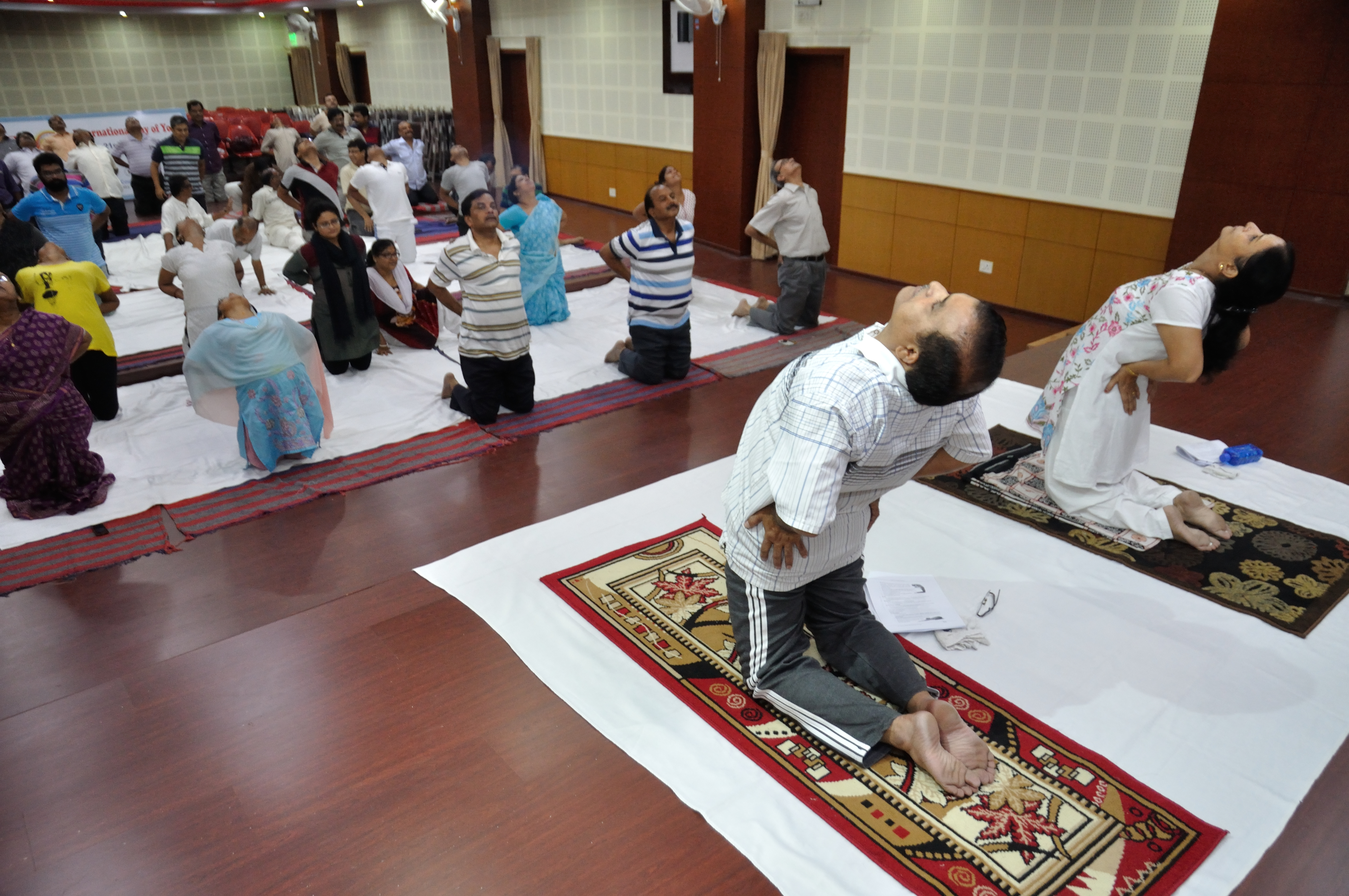 The ‘International Day of Yoga’ was celebrated by the National Council of Science Museums (NCSM), Kolkata, under the Ministry of Culture, Govt. of India. About fifty persons took part of the Yoga programme.